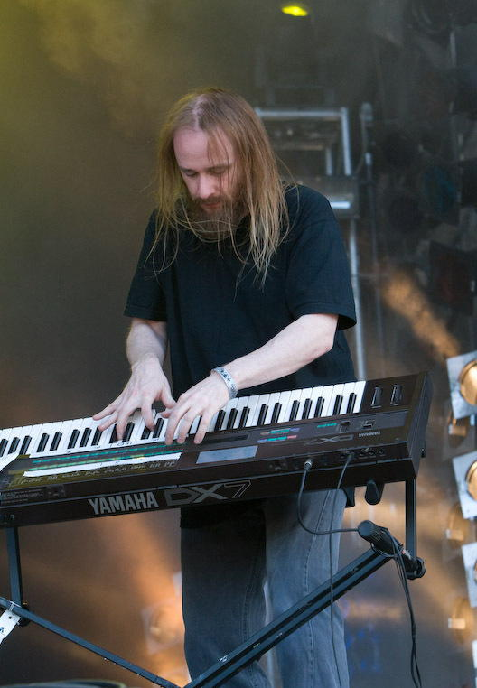 Jens Johansson of Stratovarius performing at Wacken Open Air 2007.